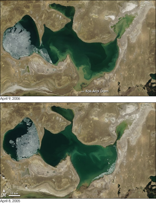 Satellite imagery of the North Aral Sea, showing an increase in volume between April 2005 and April 2006.